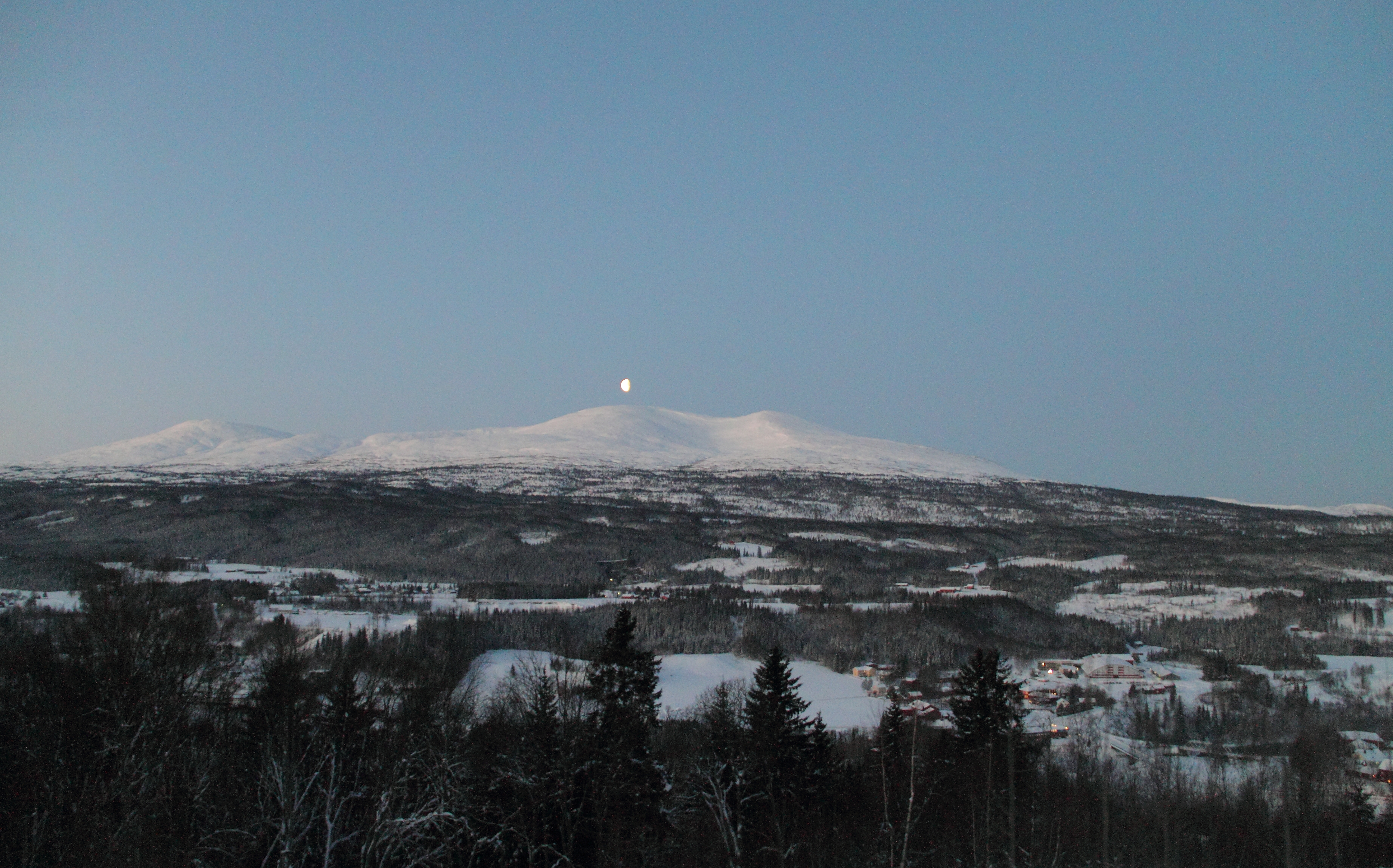 Fonnfjellet, Nord-Trøndelag, Norway.